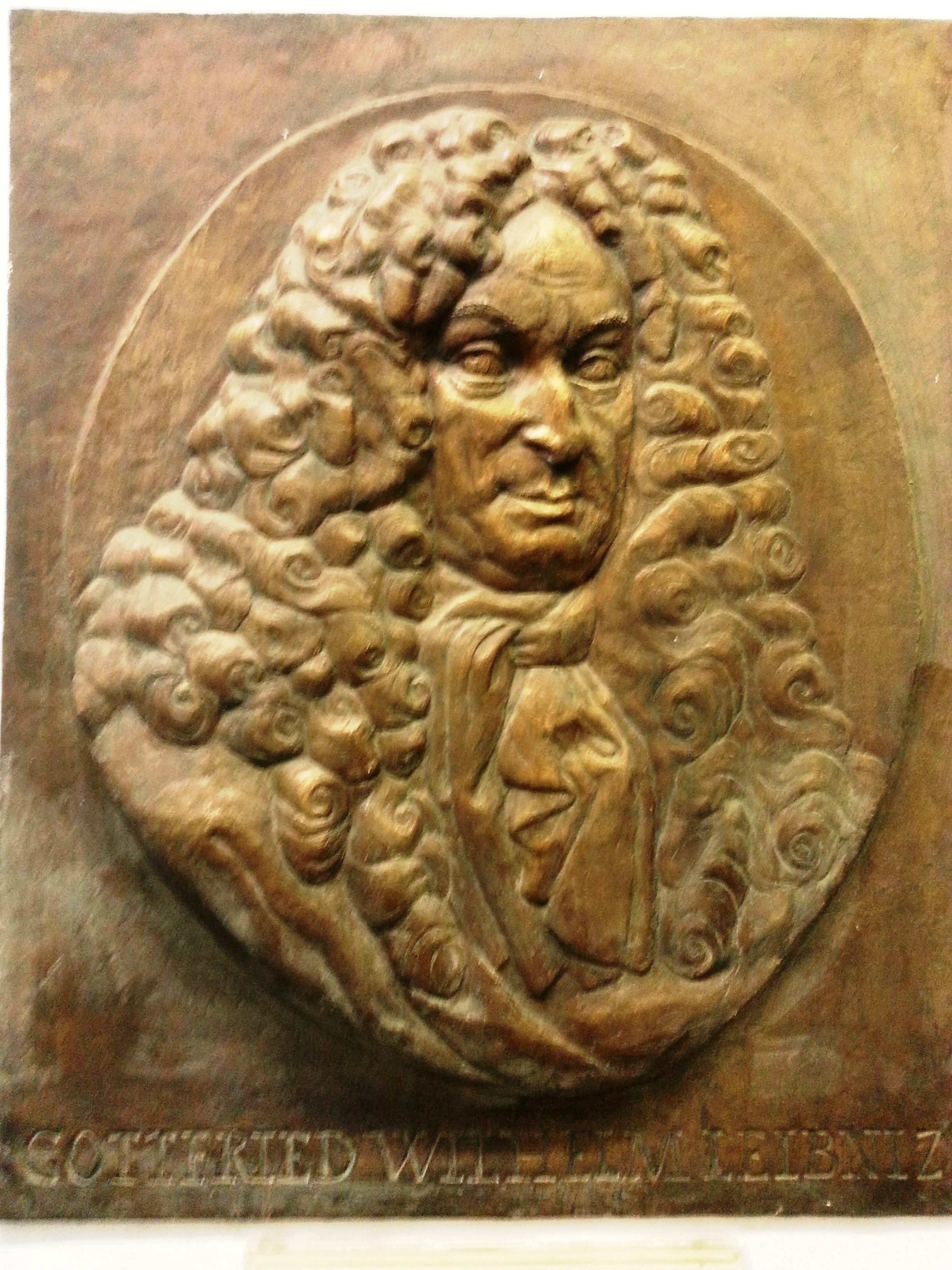 Leibniz Grammar School in Berlin - relief of the namesake Gottfried Wilhelm Leibniz in the northeastern staircase